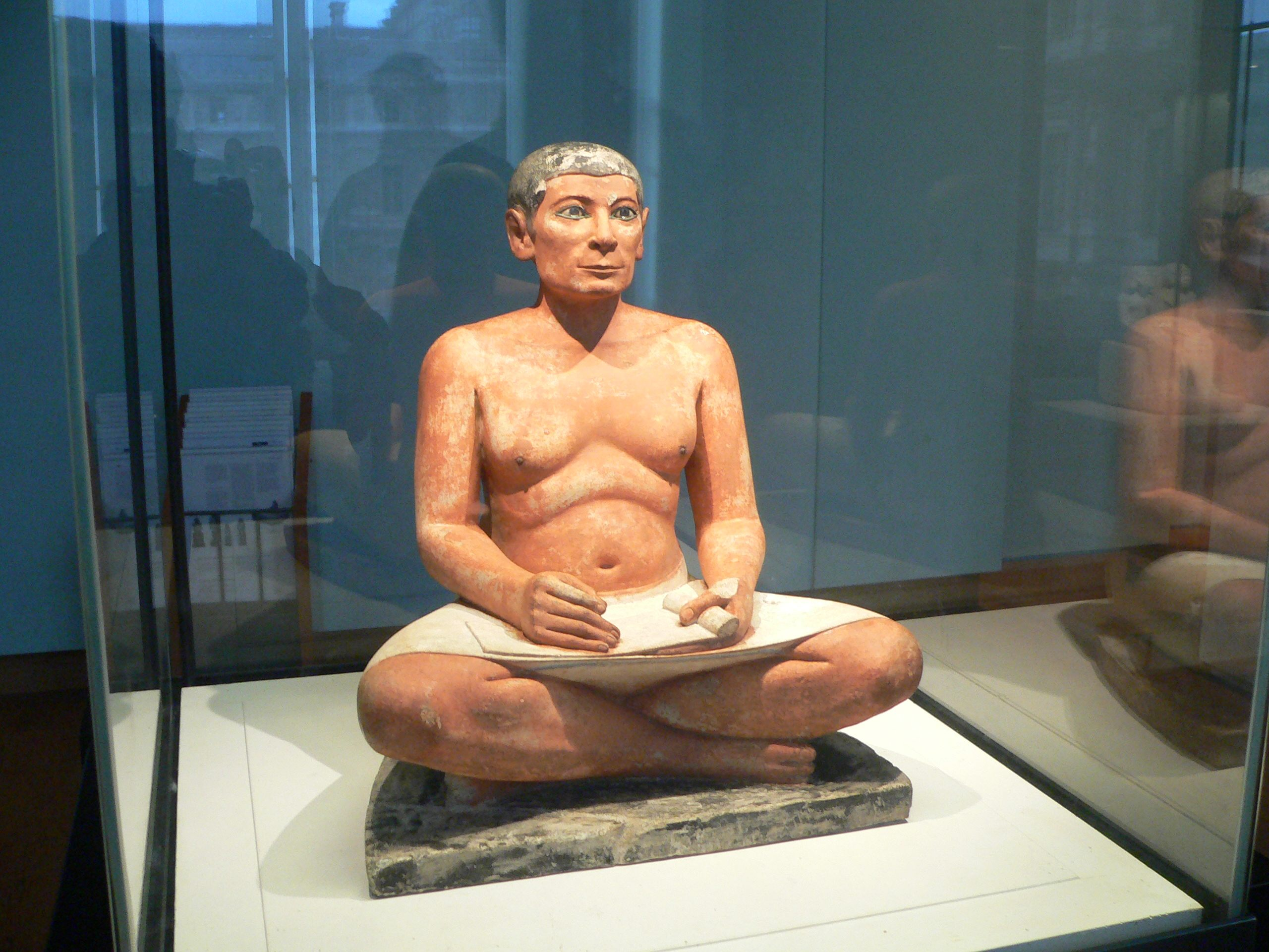 The so-called Seated Scribe. Painted limestone, eyes inlaid with alabaster, quartz cornea and rock crystal iris set in copper, 4th of 5th dynasty of Egypt, 2600–2350 BC. From Saqqarah.